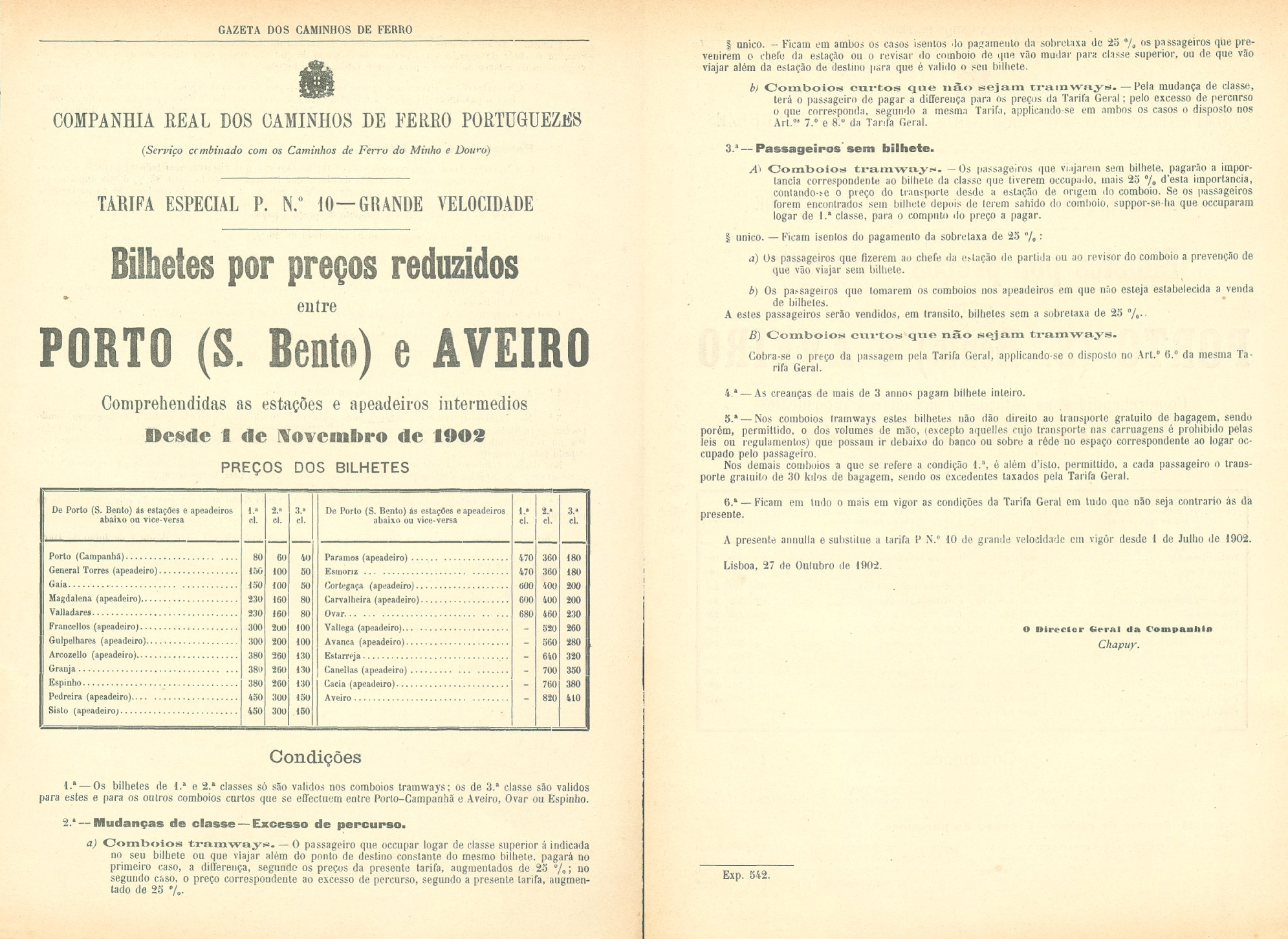 Advertisement of the Companhia Real dos Caminhos de Ferro Portugueses (Royal Company of the Portuguese Railways), with the special tariff n.º 10, for tickets at reduced prices between the railway stations of Porto - São Bento and Aveiro. This image was published on the Gazeta dos Caminhos de Ferro magazine no. 357, of the 1st November 1902, and scanned by the Hemeroteca Municipal de Lisboa.